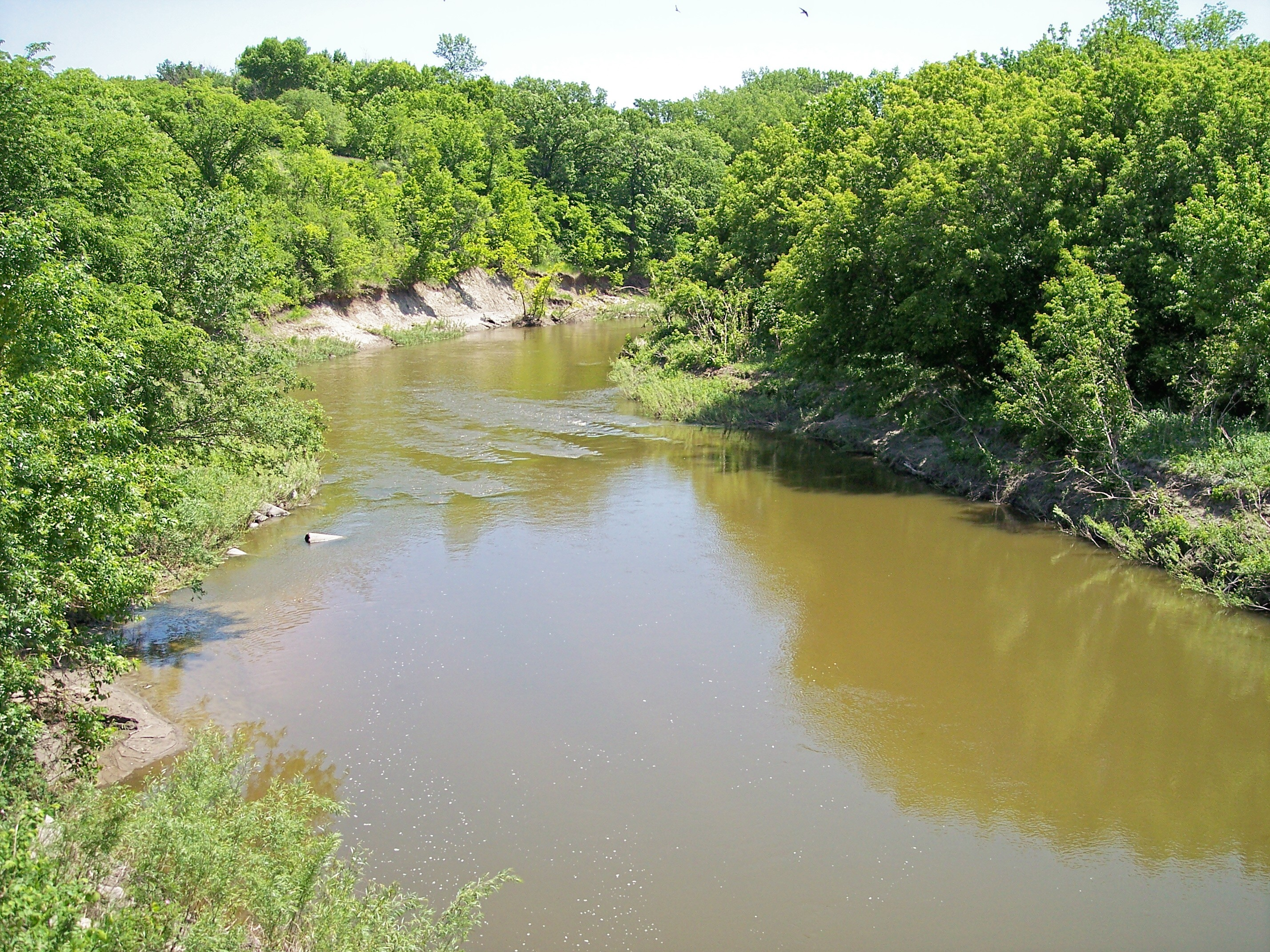 The Lac qui Parle River in Lac qui Parle Township, Minnesota, as viewed from County Road 31.